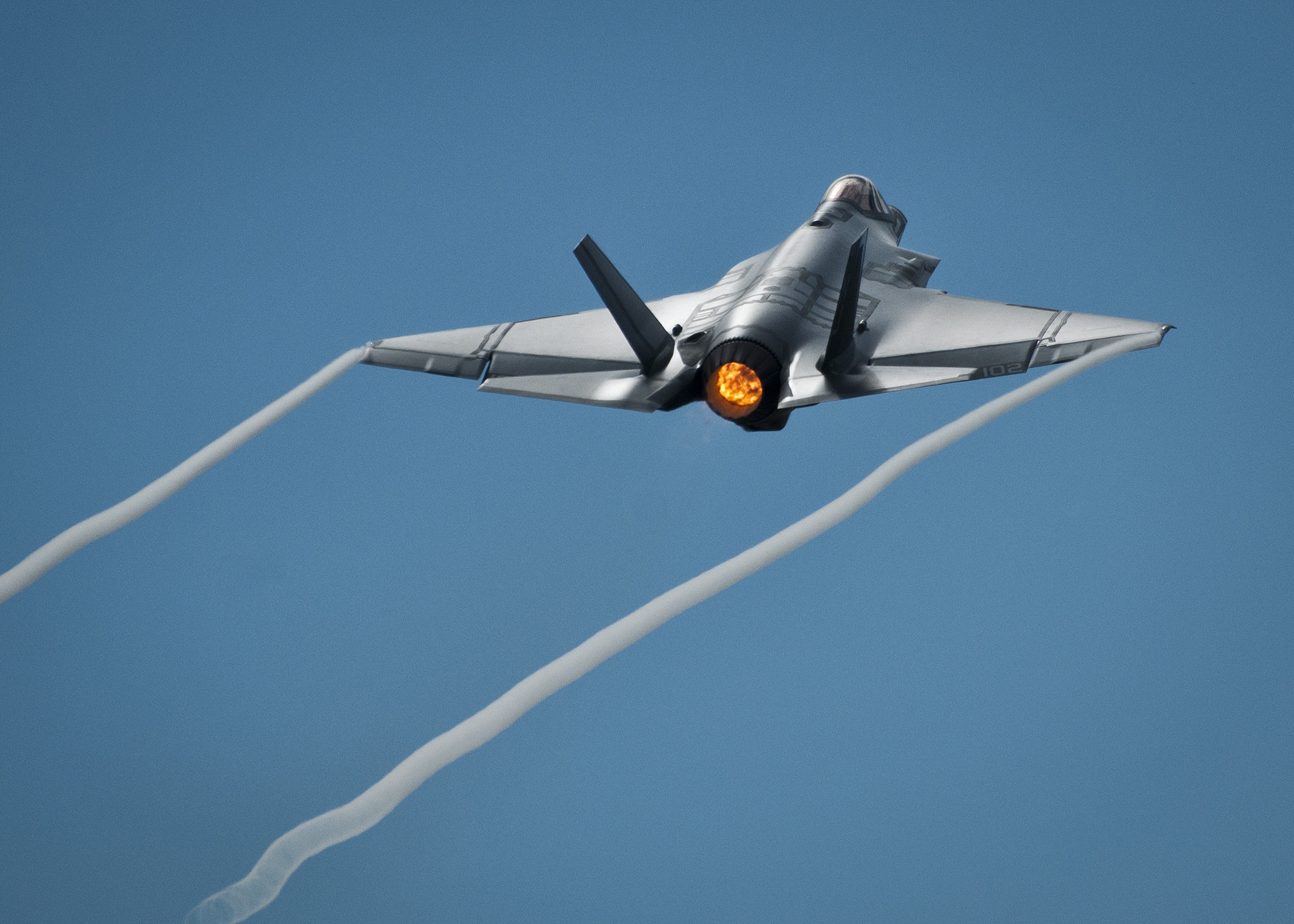 U.S. Navy Lt. Cmdr. Christopher Tabert, Lockheed Martin F-35C Lightning II instructor pilot of Strike Fighter Squadron VFA-101 "Grim Reapers", flies the squadron's first local sortie from Eglin Air Force Base, Florda (USA), on 13 August 2013. VFA-101, based at Eglin Air Force Base, serves as the F-35C Fleet Replacement Squadron, training both aircrew and maintenance personnel to fly and repair the F-35C.